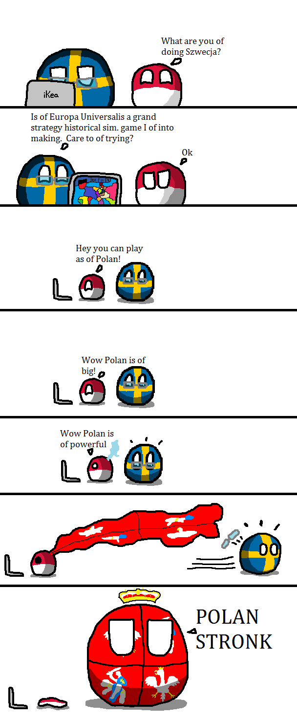 Polandball comic seeing Poland playing Europa Universalis and, according to the author, unlocks some suppressed memories. This comic was used by Wojciech Oleksiak on culture.pl to illustrate the concept of Poles telling stories about their history.